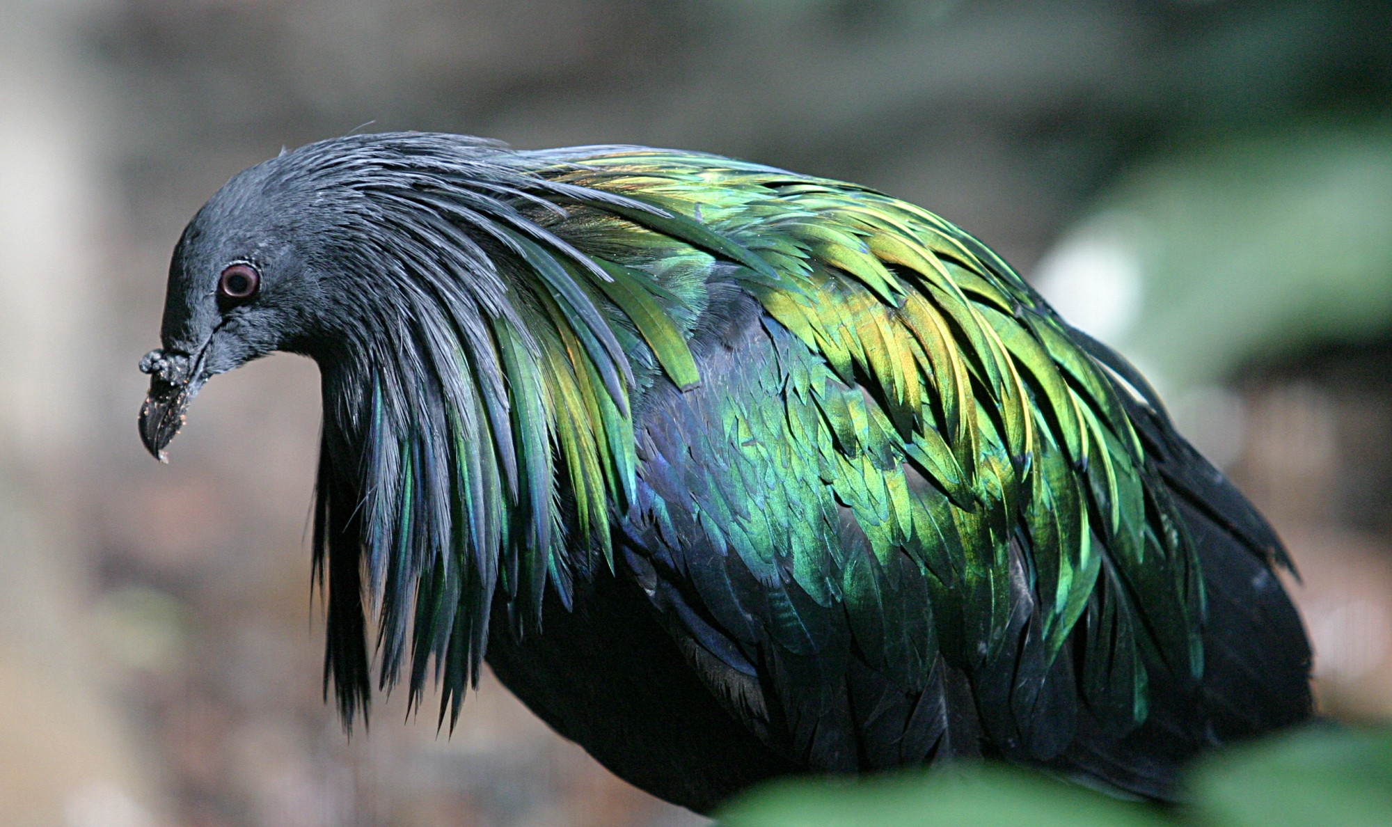 Nicobar Pigeon at the Milwaukee County Zoological Gardens in Milwaukee, Wisconsin.